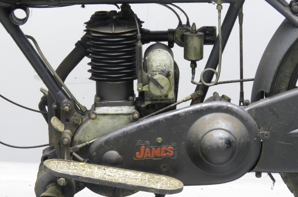 1914 James Model 6 600cc side valve engine, left side